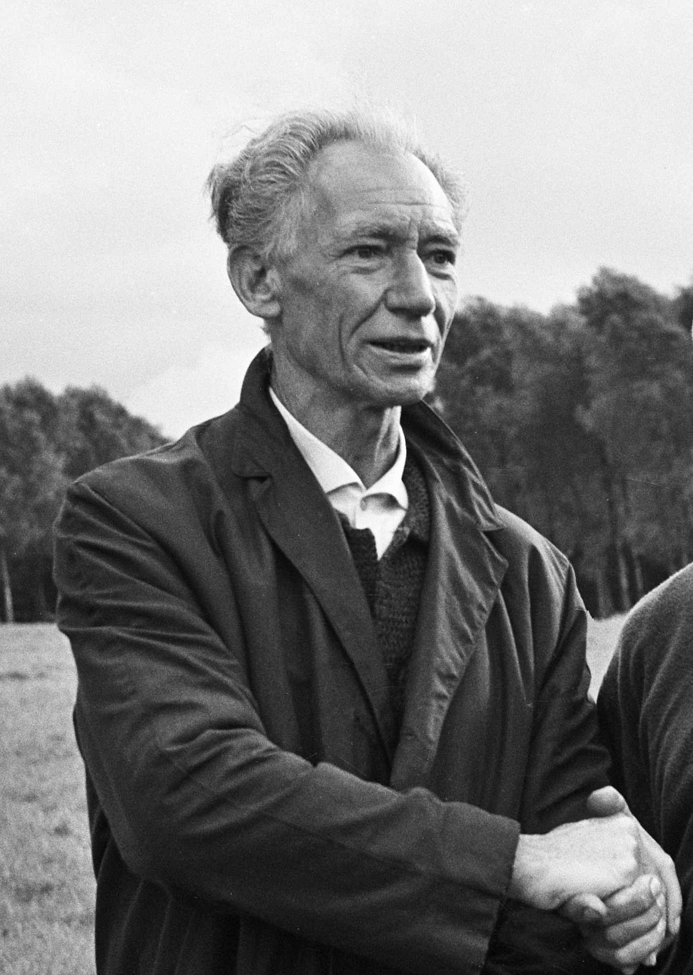 de heer Toscani